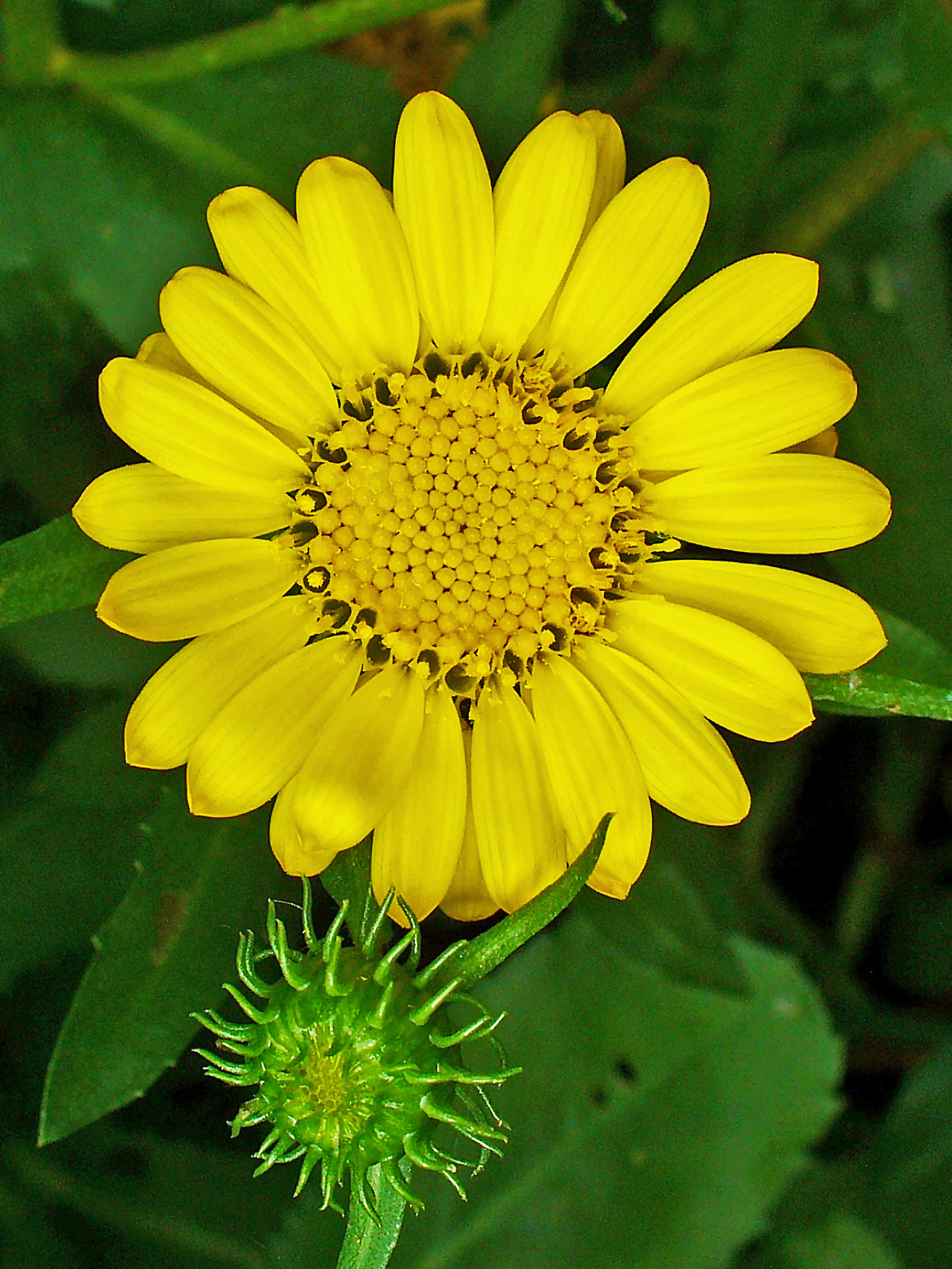 Grindelia camporum, Asteraceae, Yellow Tarweed, Wild Sunflower, Gum Plant, inflorescence. The fresh, aerial parts collected at bloom are used in homeopathy as remedy: Gratiola (Grat.)